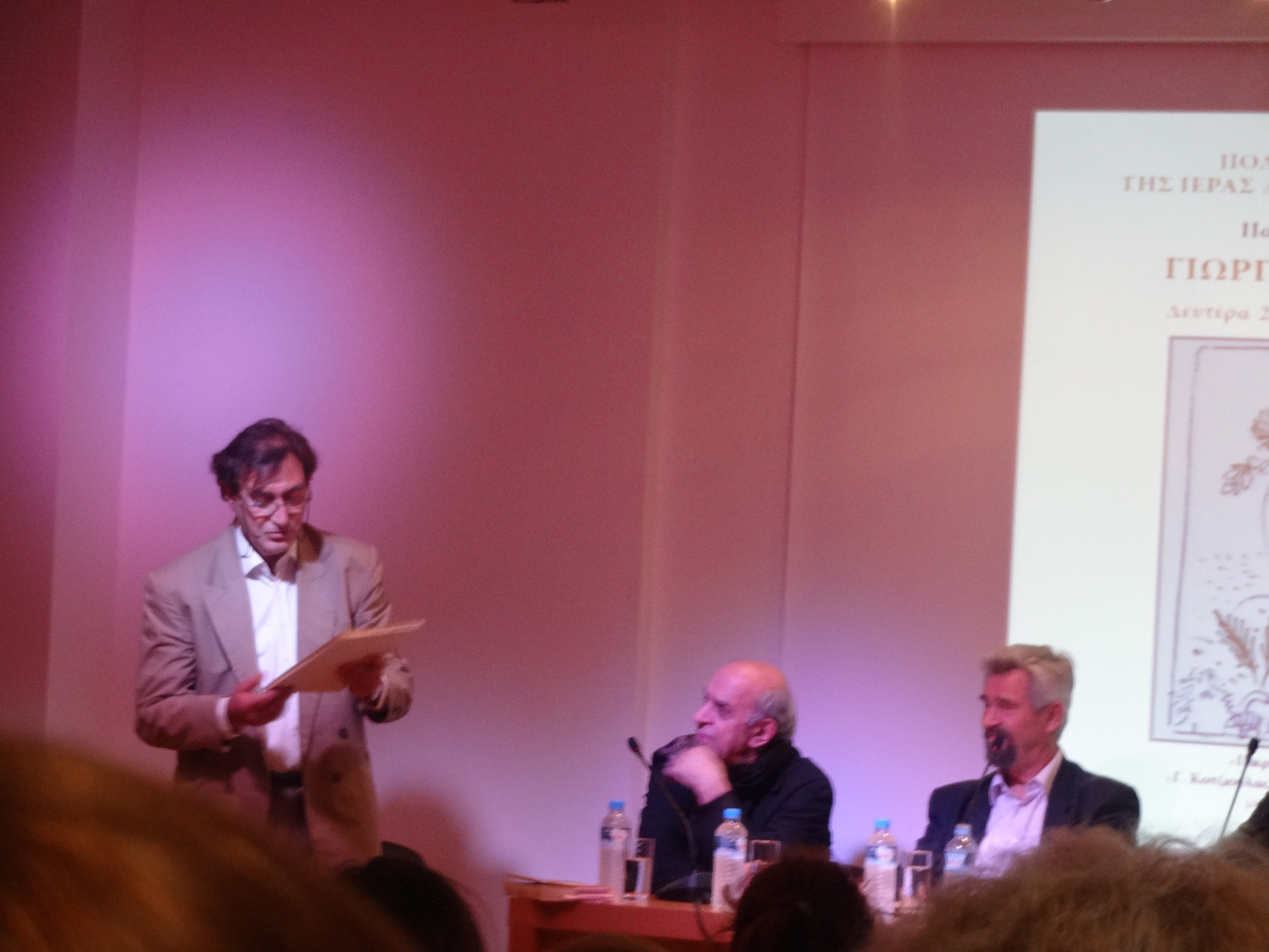 Greek sculptor Theodoros Papagiannis (right) and painter Alekos Fassianos (center) at the presentation of volume of published for the first time works of Greek poet Georgios Kodzioulas (1909-1956).